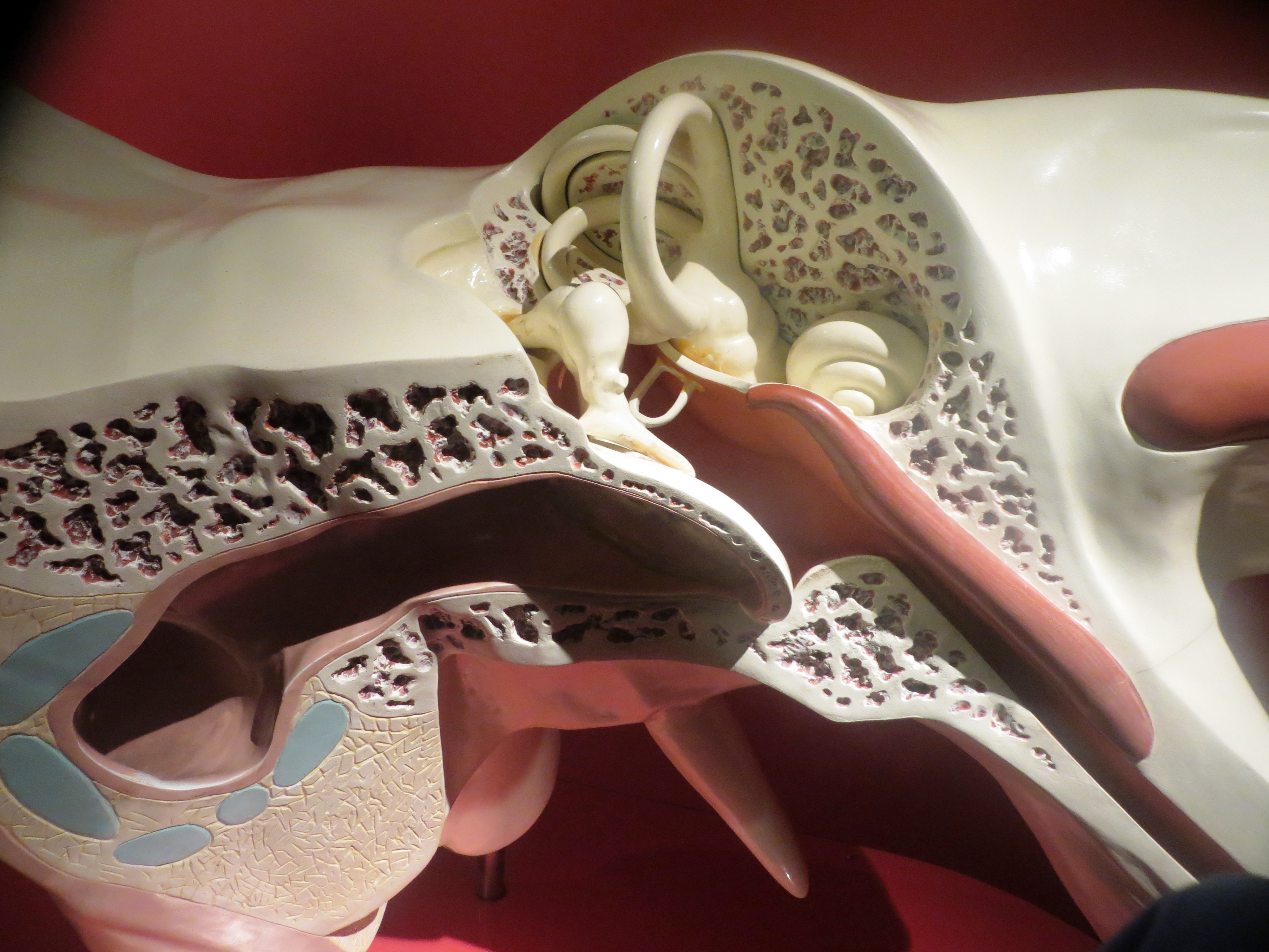 Model of the huam ear in the Technical Museum, in Oslo, Norway